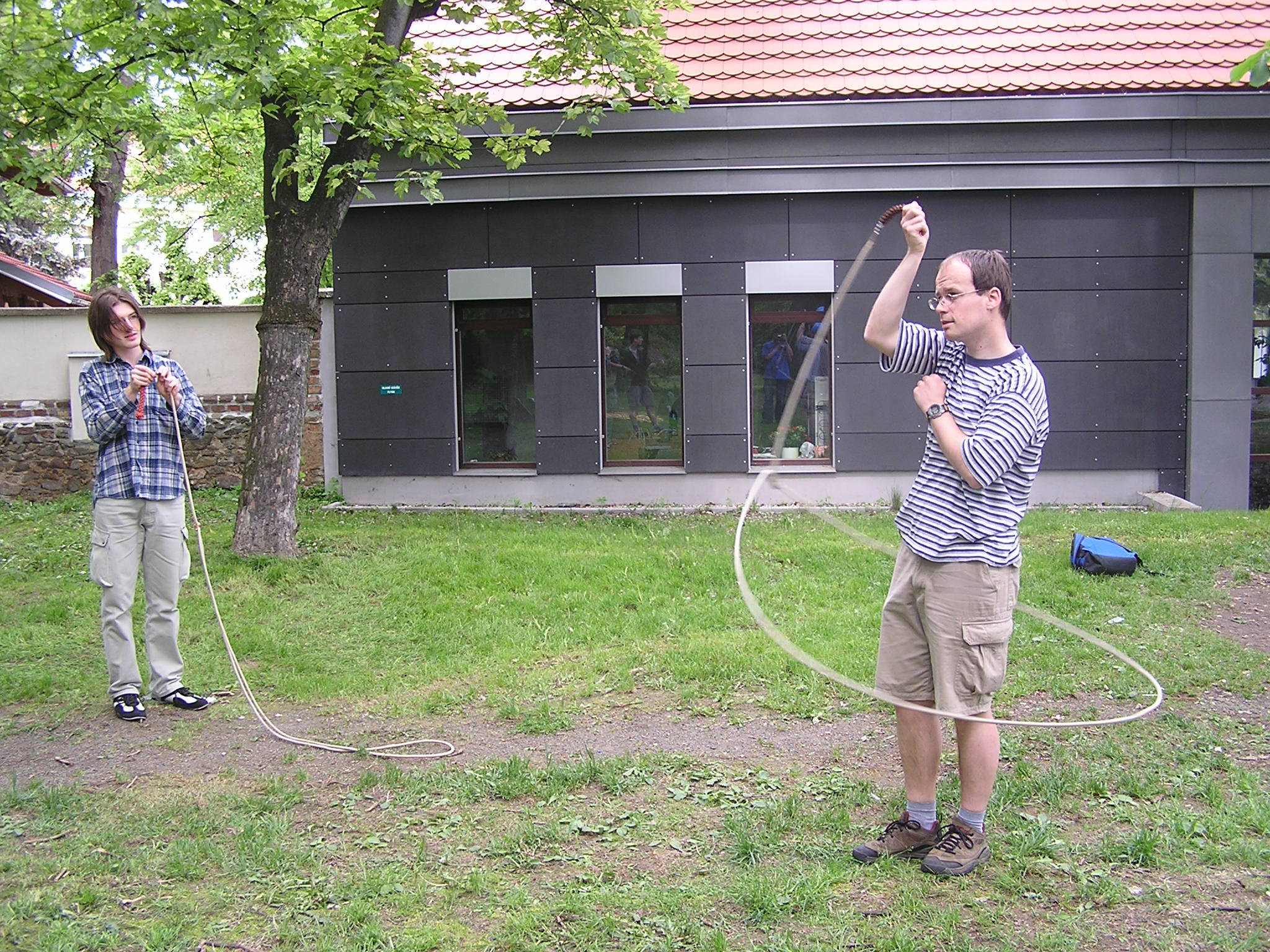 man with lasso